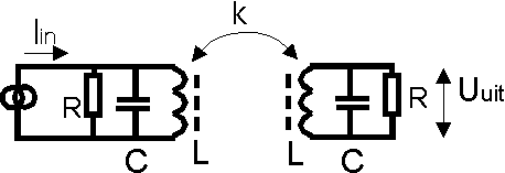 Bandpass circuit with 2 coupled LC networks